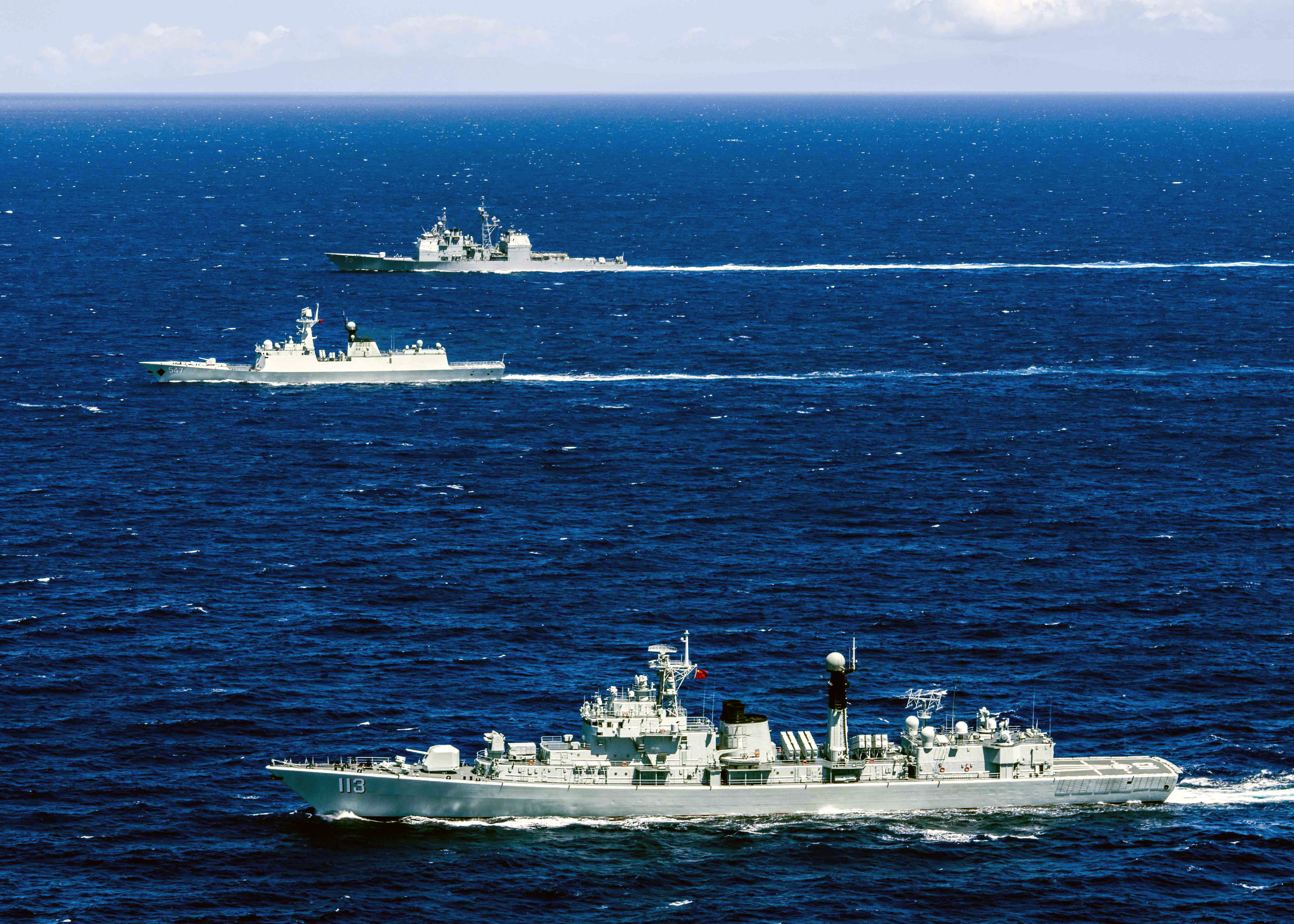 The Chinese People's Liberation Army-Navy destroyer Qingdao (DDG 113), foreground, frigate Linyi (FFG 547), and the U.S. Navy guided-missile cruiser USS Lake Erie (CG 70) operate together off Oahu, Hawaii, during a search and rescue exercise (SAREX). The SAREX and this past weekend's port visit at Pearl Harbor by Qingdao, Linyi, and fleet oiler Hongzehu (AOR 881) is part of the U.S. Navy's ongoing effort to maximize opportunities for developing relationships with foreign navies as a tool to build trust, encourage multilateral cooperation, enhance transparency, and avoid miscalculation in the Pacific. 中文（中国大陆）: 解放军海军“青岛”号导弹驱逐舰（舷号113，近）、“临沂”号导弹护卫舰（舷号547，中）美国海军伊利湖号导弹巡洋舰（舷号70，远）在夏威夷瓦胡岛附近海域进行搜救演习。